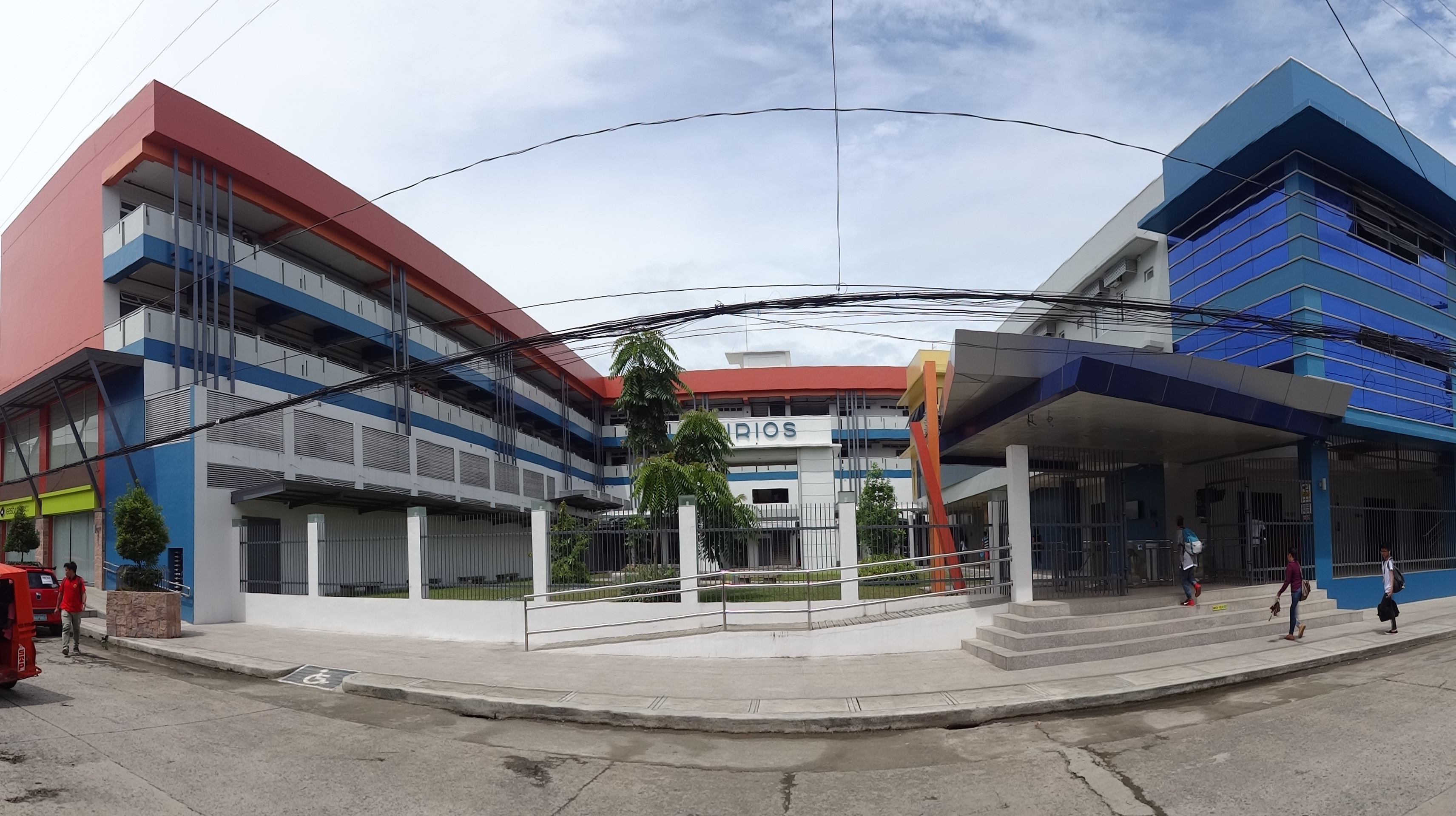 This is my own work. The panorama view of the FSUU CBE.